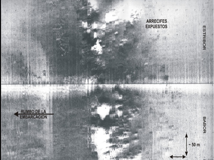 Fig. 7. Porciones de datos del sonar de barrido lateral 100KHz que muestra arrecifes expuestos en el lecho marino.